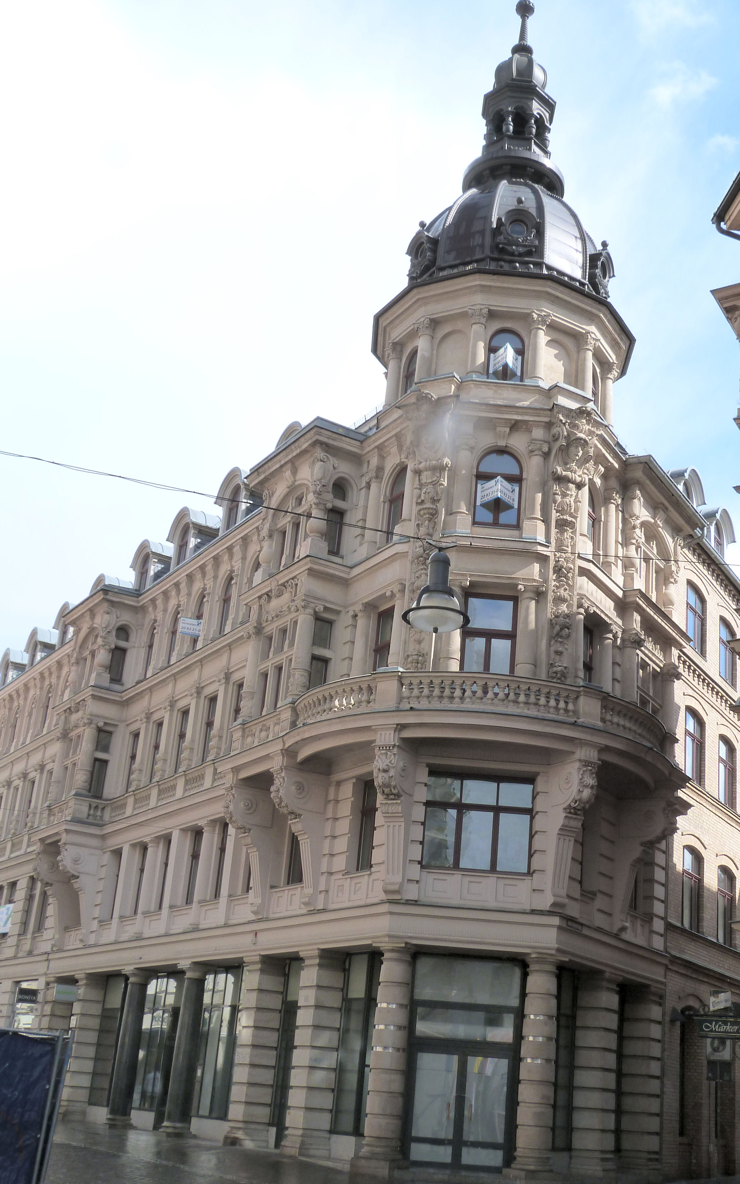 House No. 100, Leipziger Strasse in Halle (Saale)